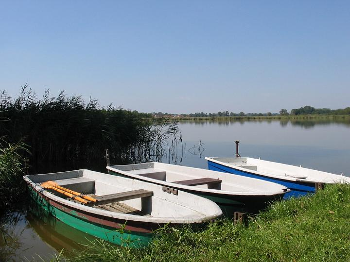 Gröbener See (lake), view from Jütchendorf to Gröben. The village Jütchendorf is a part of the town Ludwigsfelde in the district Teltow-Fläming, state Brandenburg, Germany. The village is situated in the Nature park Nuthe-Nieplitz.